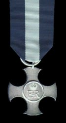 Distinguished Service Cross